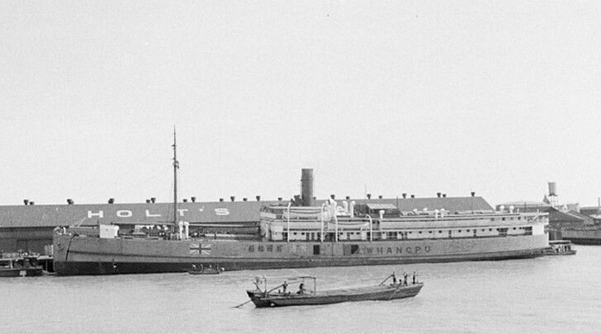 China Navigation Co river steamer SS Whang Pu: port side view